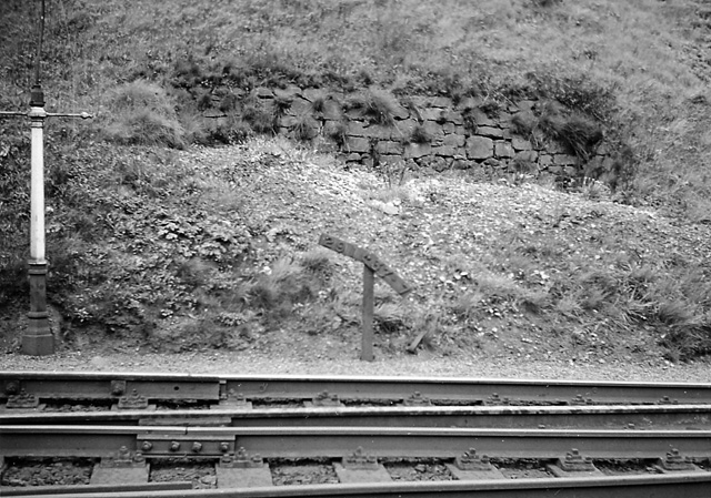 Gradient post at Summit of Lickey Bank, Blackwell Post sited on the Down side. This is where all Up goods trains with loose-coupled wagons had to stop to have brakes applied (by hand) before train could begin the hazardous descent to Bromsgrove: 1-in-37.7 continuously for two miles. Almost all Up trains had to be assisted by banking engines, breaching the summit here in spectacular fashion.